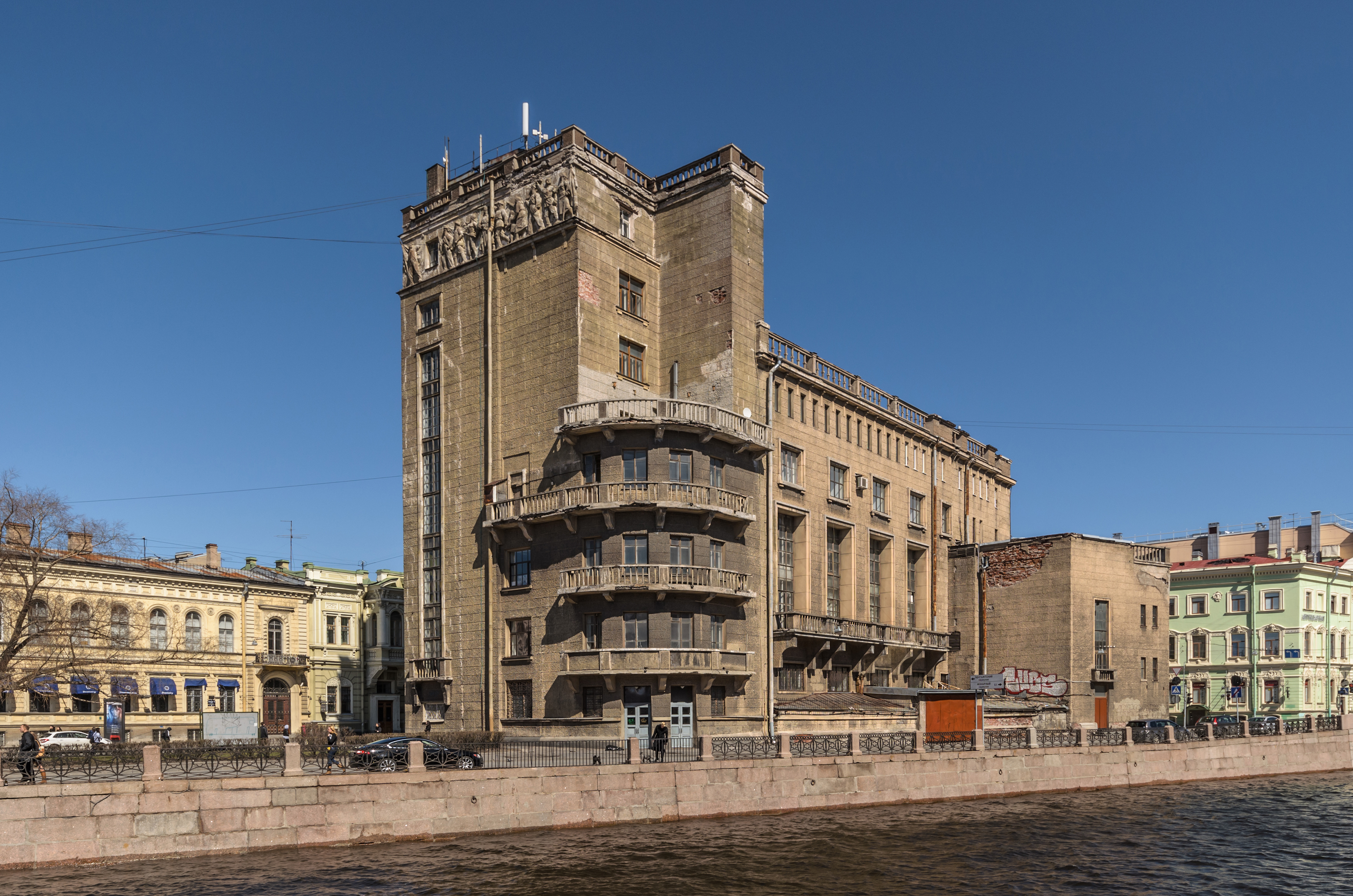 Postal Workers House of Culture (former Deutsch reformist church) in Saint Petersburg